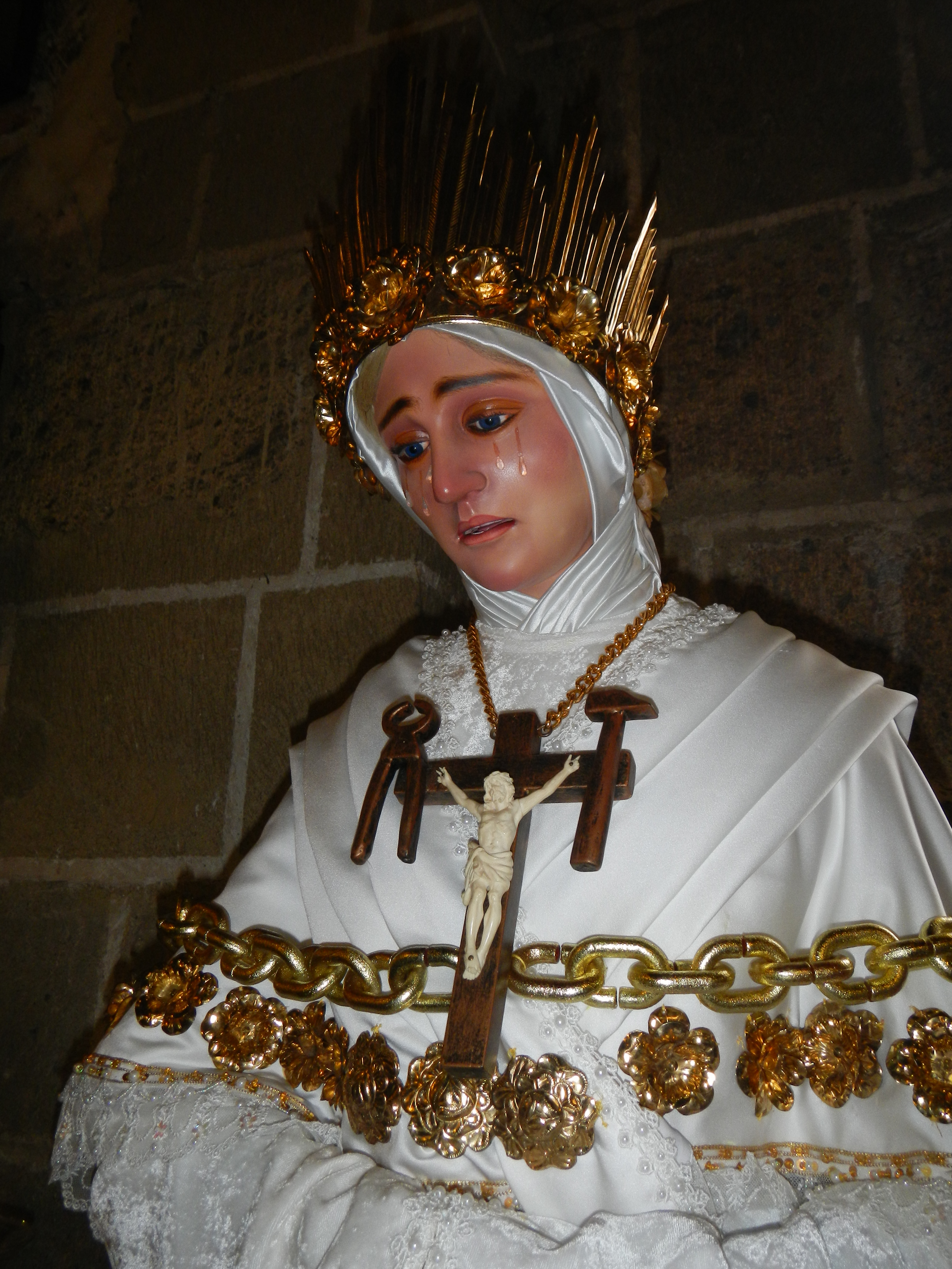 UploadWizard photos --- (general description) of (landmarks, heritage, culture, comprehensive, photography) of – Paete, Laguna[1] - Saint James the Apostle Parish Church of Paete, Paete, Laguna[2] - (belongs to the Episcopal District IV[3] -- Roman Catholic Diocese of San Pablo [4] [5] Vicariate of Saint James the Apostle Poblacion, Paete 4016 Feast day: July 25 Parish Priest: Father Joseph B. dela Rosa, VF) - Paete, Laguna[6] (a fourth class municipality in the province of Laguna, [7])Philippines; the latest census, a population of 23,523- Wood_carving [8] industry - proclaimed "the Carving Capital of the Philippines" on March 15, 2005 by Philippine President Arroyo; politically subdivided into 9 barangays[9] situated in Laguna, Region 4, Philippines, its geographical coordinates are 14° 21' 46" North, 121° 29' 1" East ).